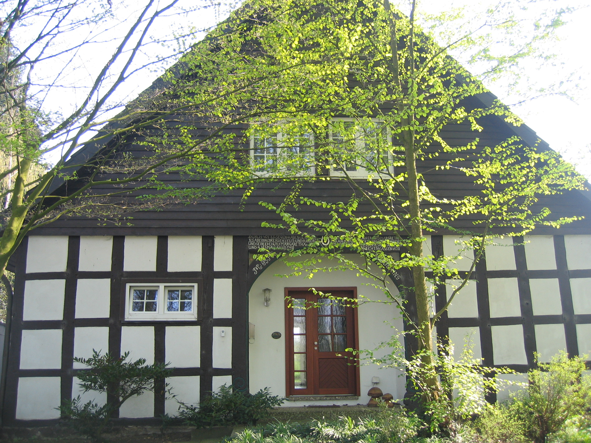 Timber framed house in Bünde, District of Herford, North Rhine-Westphalia, Germany.